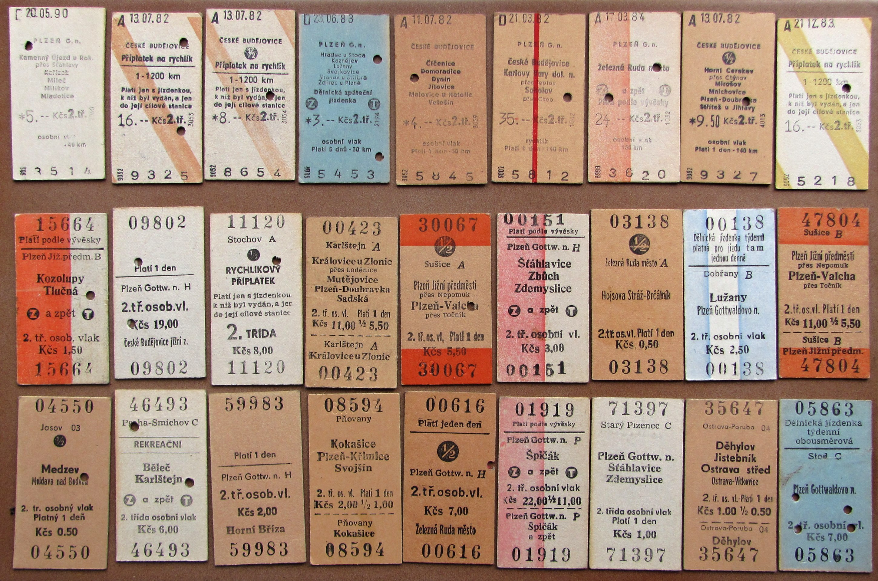 ČSD railway tickets(Czech republic) Edmondson railway ticket.